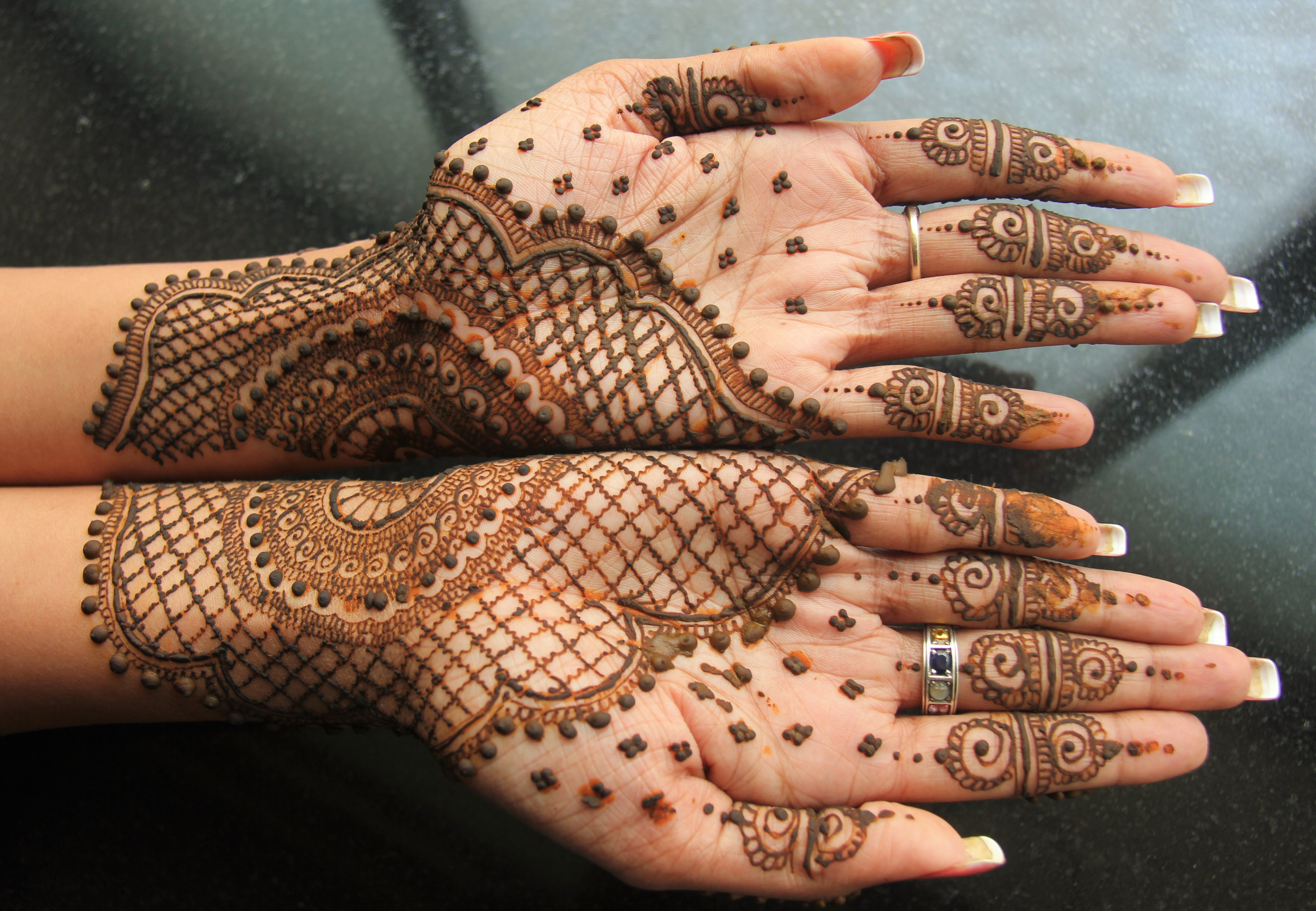 Mehndi (Hena) applied on both hands; front view